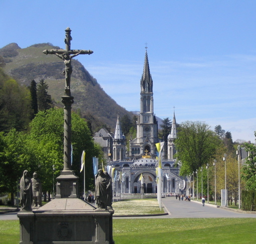 Our Lady of Lourdes Basilica Taken by User:Leland on April 21, 2004.